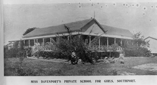 Image title:"Goy-te-lea", Miss Davenport's Private School for Girls at Southport, 1905 Description: "Goy-te-lea" in 1905, the main building of 'Miss Davenport's Private School for Girls' at Southport. Purchased by St Hilda's School in 1912.